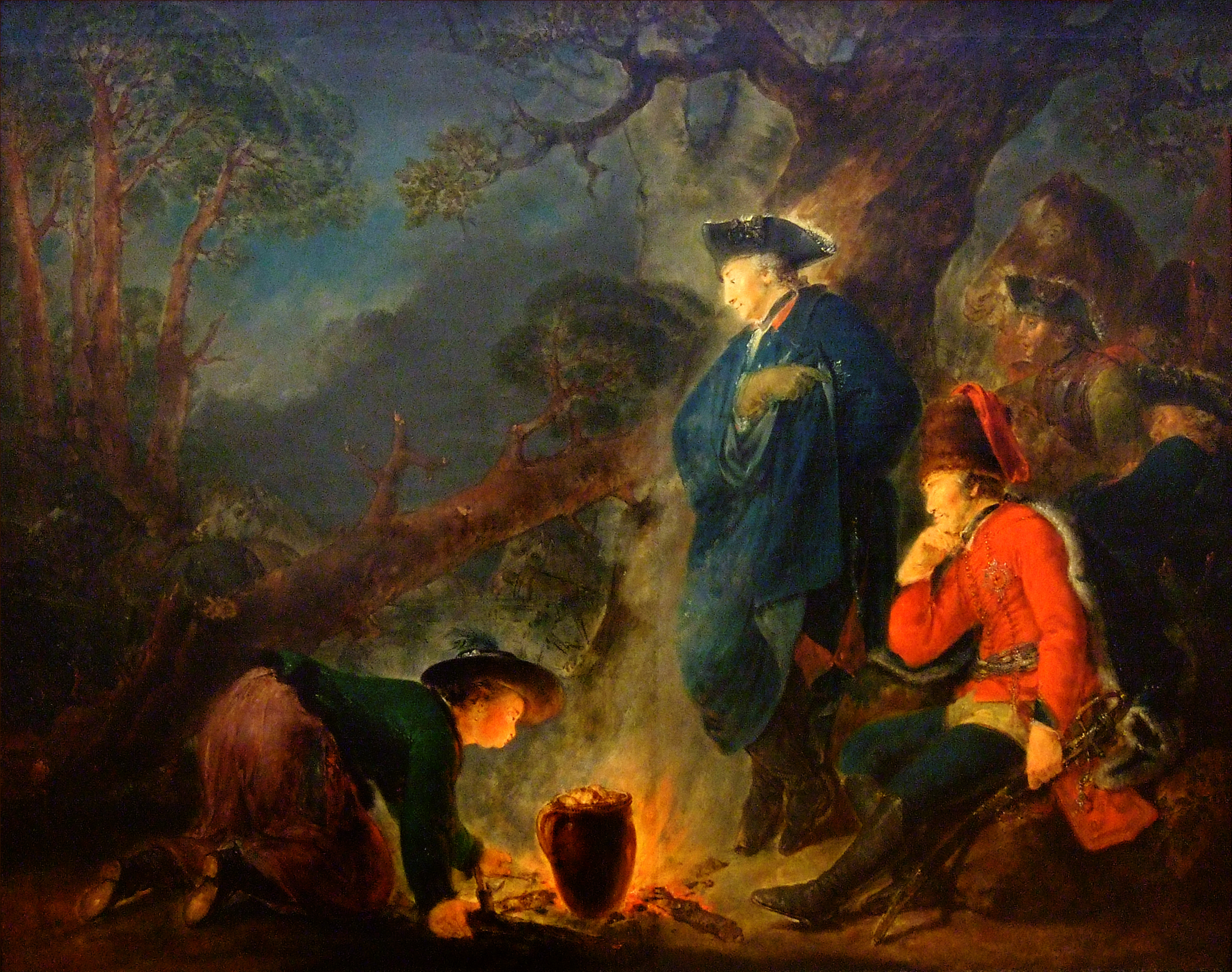 Frederick the Great before the Battle of Torgau (1791) by Bernhard Rode. "Prior to the Battle of Torgau, Frederick the Great halts with his army to fill a swamp in order to bring the cannons across it. Next to him, General Ziethen has fallen asleep. A soldier's wife comes and sets a pot of potatoes on the king's fire without noticing him and blows into the fire so that ash flies into his face. The king smiles." (Catalog of the Exhibition of the Berlin Academy, 1793)